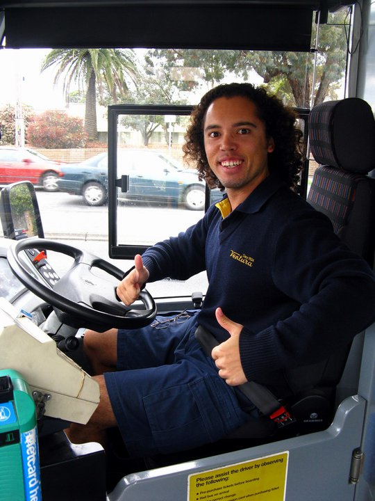 David Marshall, Bus Driver from Melbourne, Australia